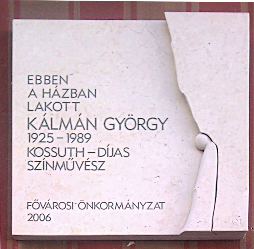 György Kálmán commemorative plaque in Budapest District I, Bécsi kapu Square No 8 (Kard Street side)